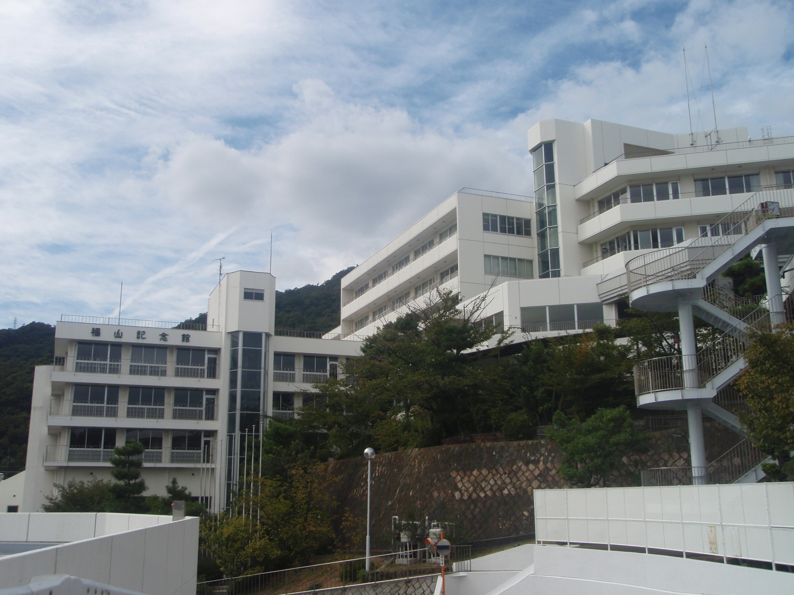 Ashiya University, a university in Hyogo, Japan